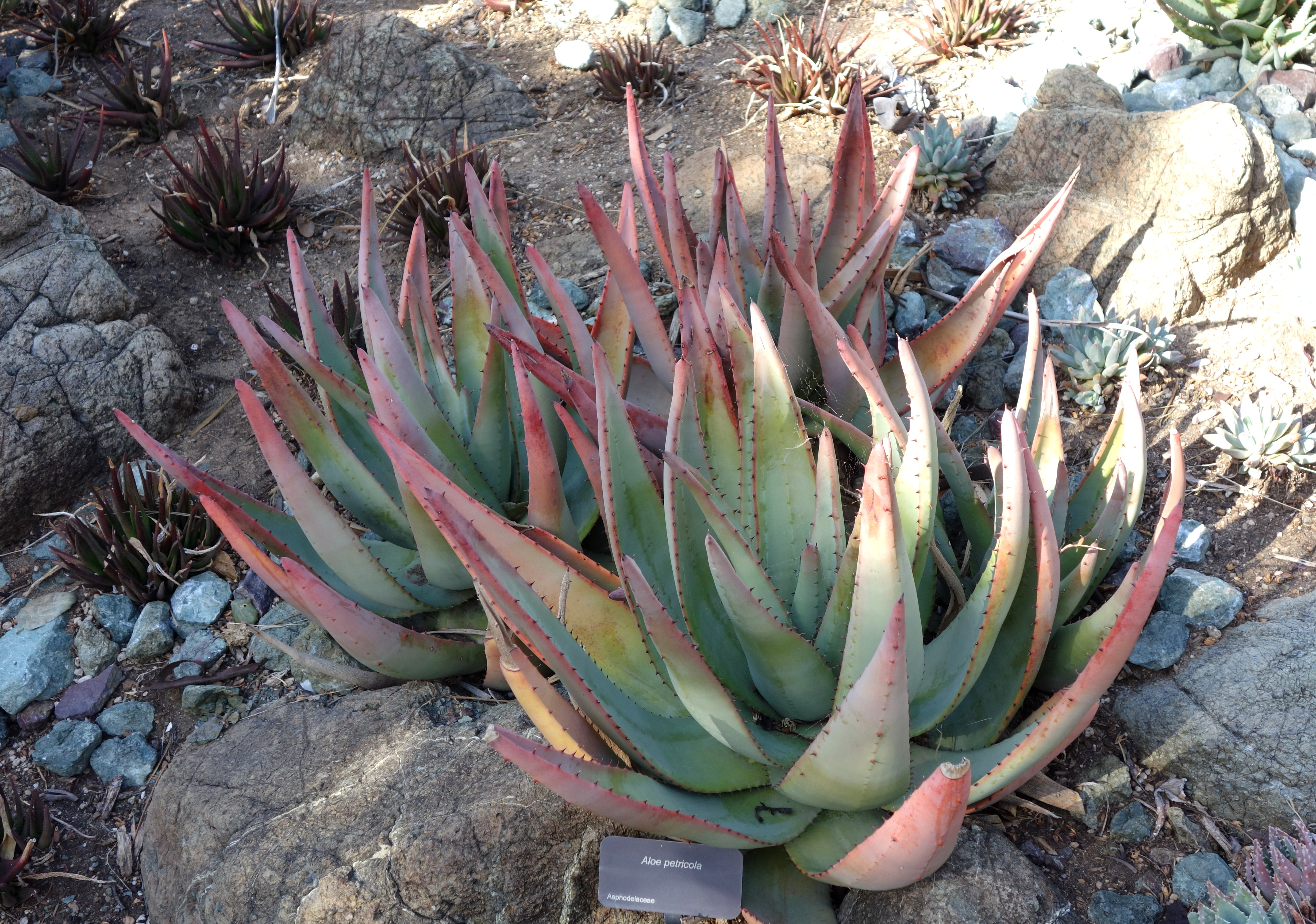 Botanical specimen in Leaning Pine Arboretum, California Polytechnic State University, San Luis Obispo, California, USA.